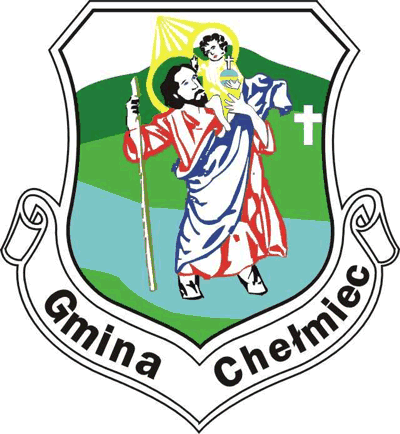 Coat of arm of Chelmiec Commune, Poland